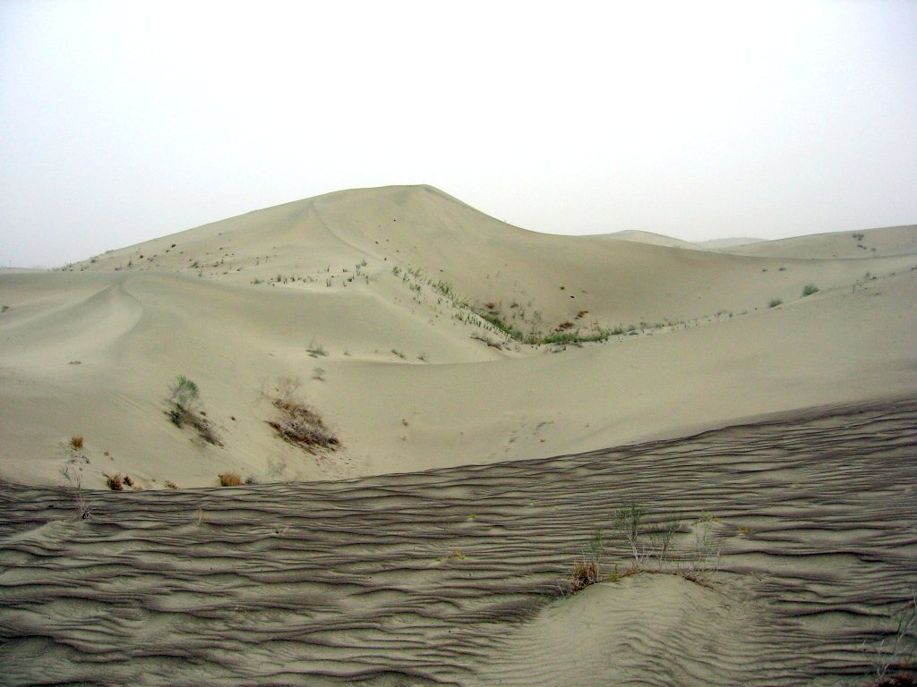 Landscape in Taklamakan desert near Yarkand, Autonomous Region of Xinjiang, China.